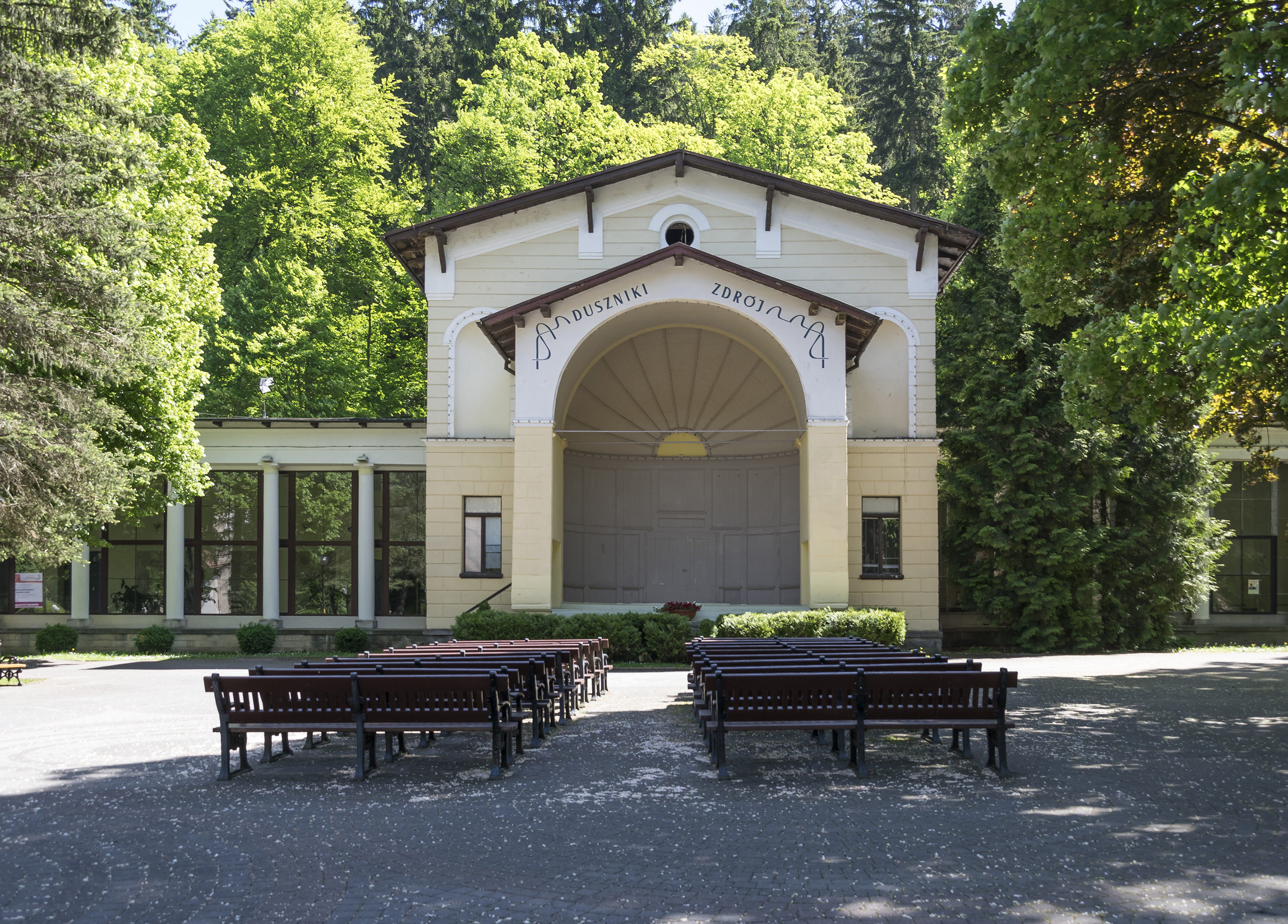 Spa Park in Duszniki-Zdrój